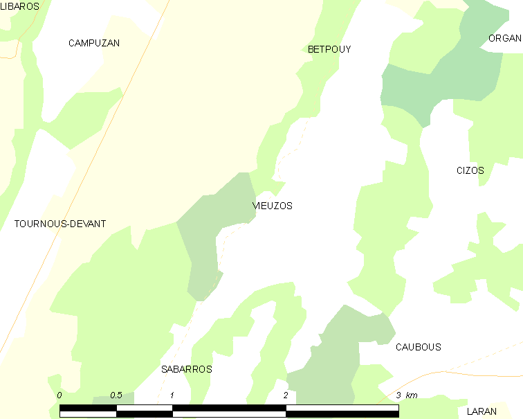 Map of French municipality